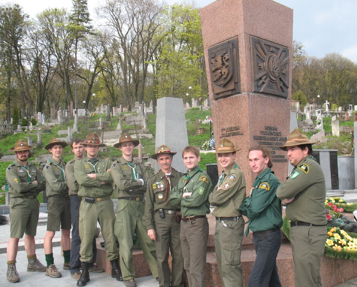 The "Monument of the SS-Galicia" in Lviv, Ukraine, commemorating Ukrainian soldiers. Members of the Plast National Scout Organization of Ukraine at a reunion (Lychakiv Cemetery).